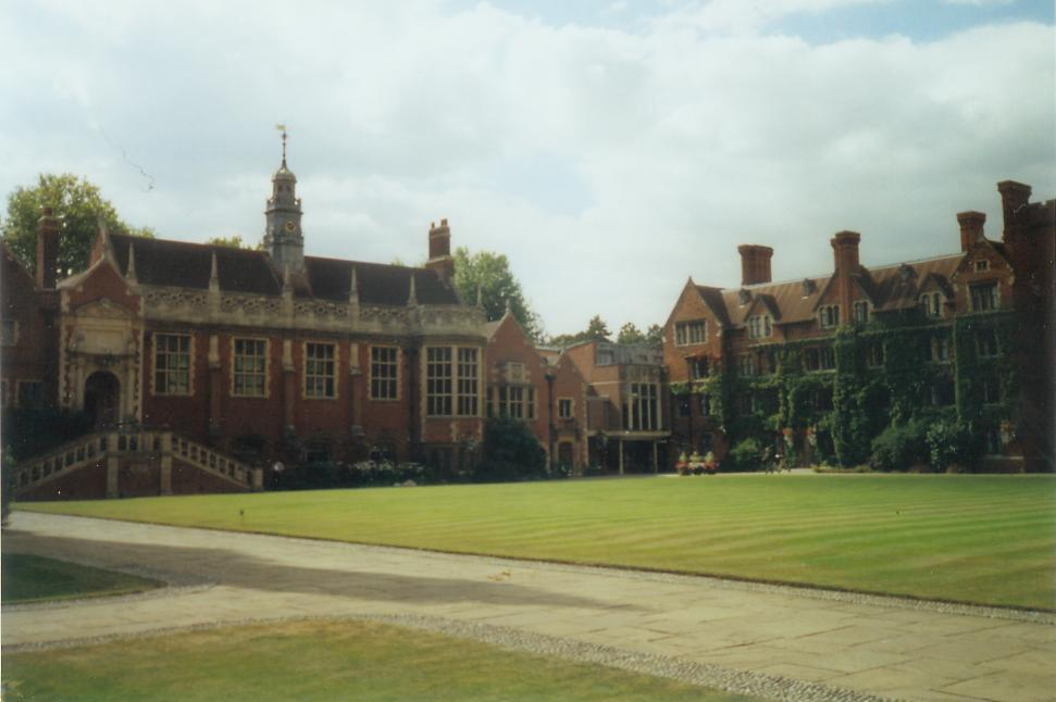 Selwyn College, Cambridge University